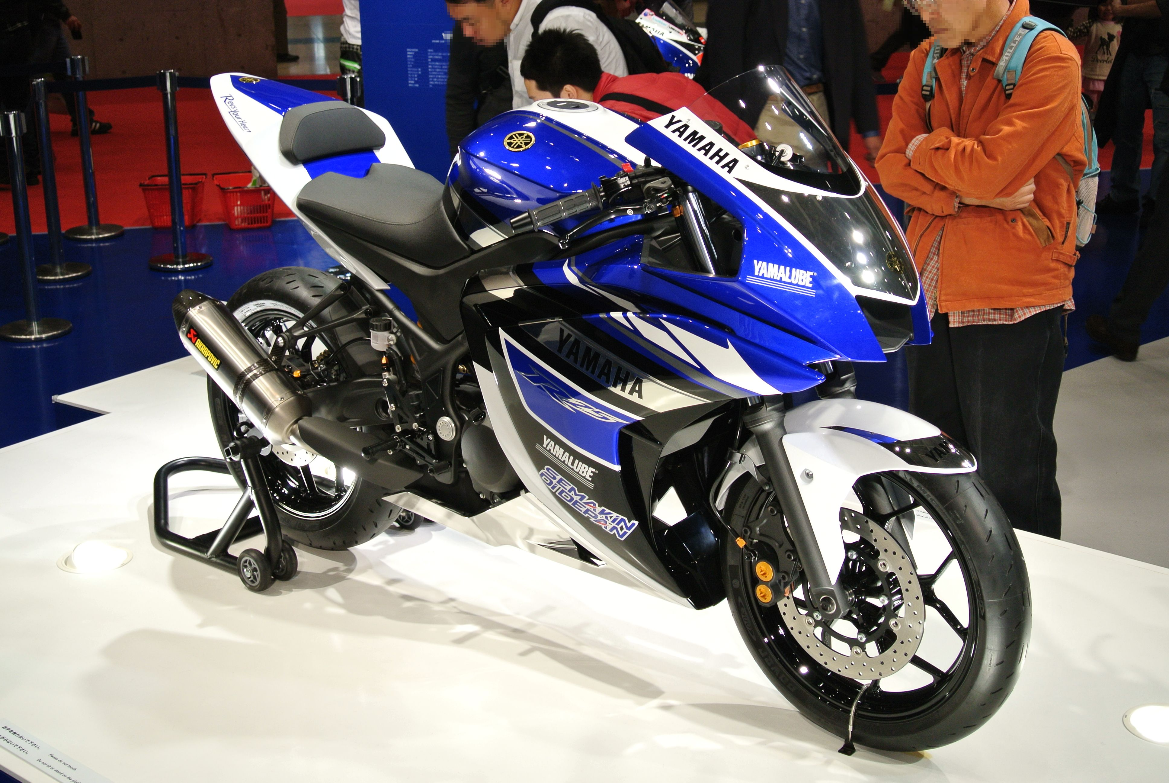 Yamaha Racing Motorcycle YZF-R25 at 43rd Tokyo Motor Show 2013.